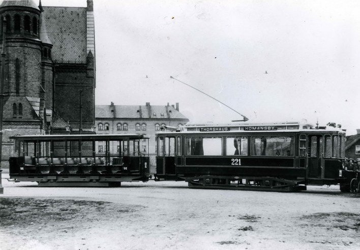 Kristiania Sporveisselskab tram 221 serving line 7. Open trailer no. 92 (Skabo)